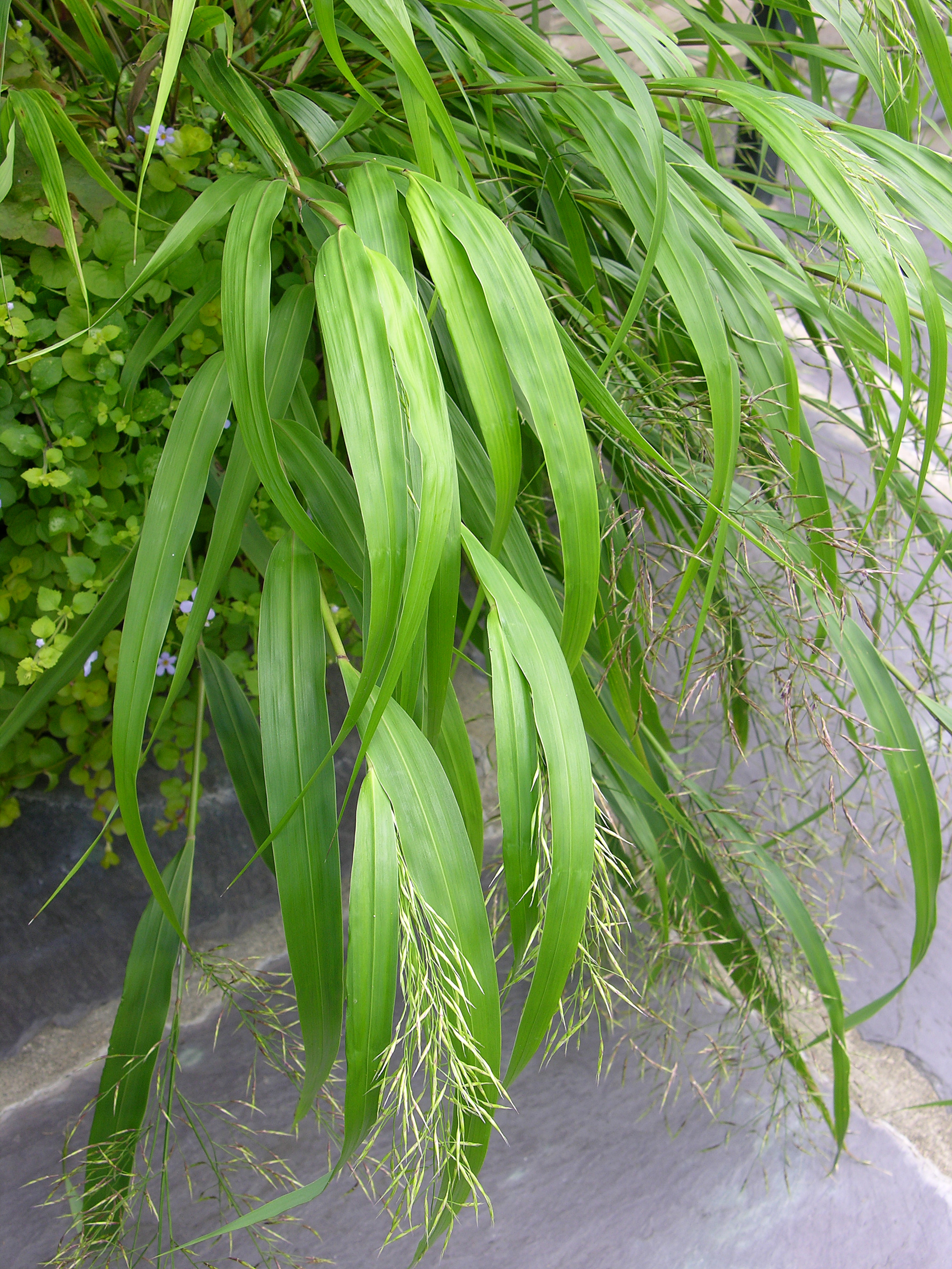 A picture of the Hakonechloa macra en 'All Gold' plant. Photo taken at the Chanticleer Garden where it was identified.